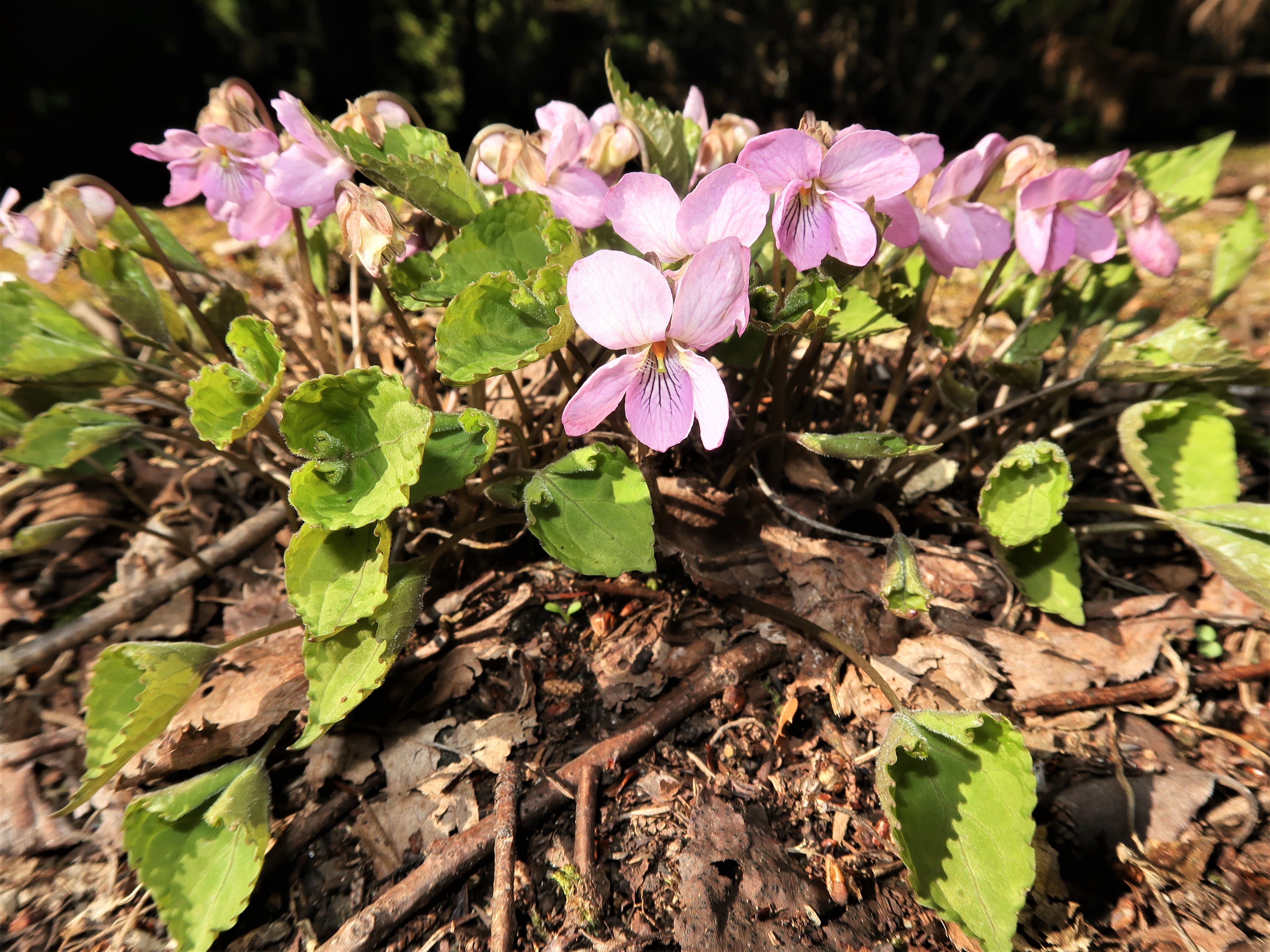 Viola rossii, Naka-dori area, Fukushima pref., Japan